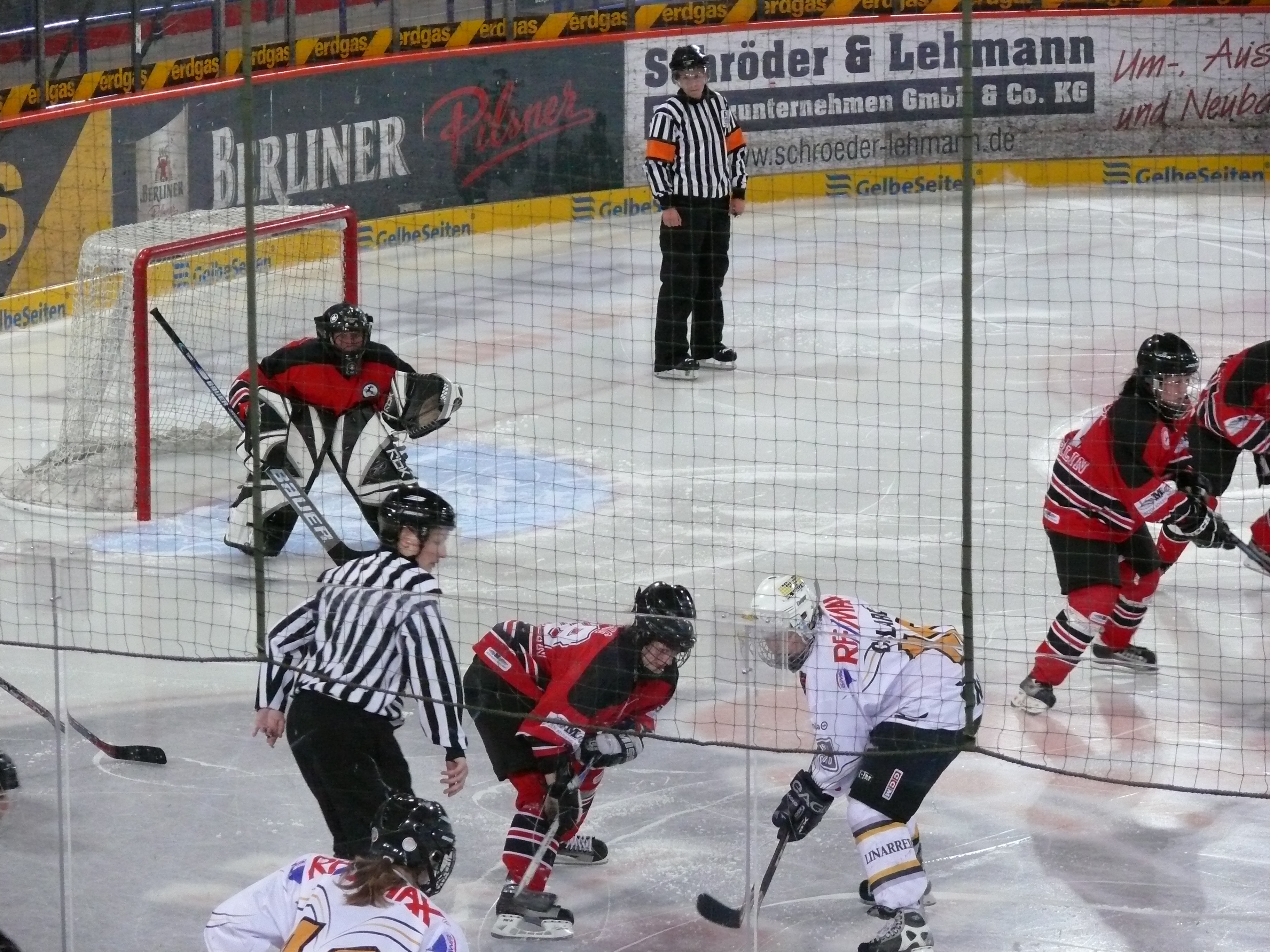 IIHF European Women Champions Cup 2007 - first round in Berlin Oktober, 6th-8th 2006 Women's ice hockey Game of HC Lugano Panther Ladies Team vs. OSC Berlin at the IIHF European Women Champions Cup 2007